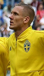 2018 FIFA World Cup Match 55, Sweden v Switzerland